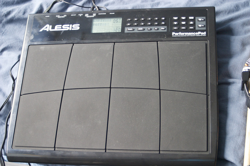 My new baby! :D Alesis Performance Pads, wonderful things!